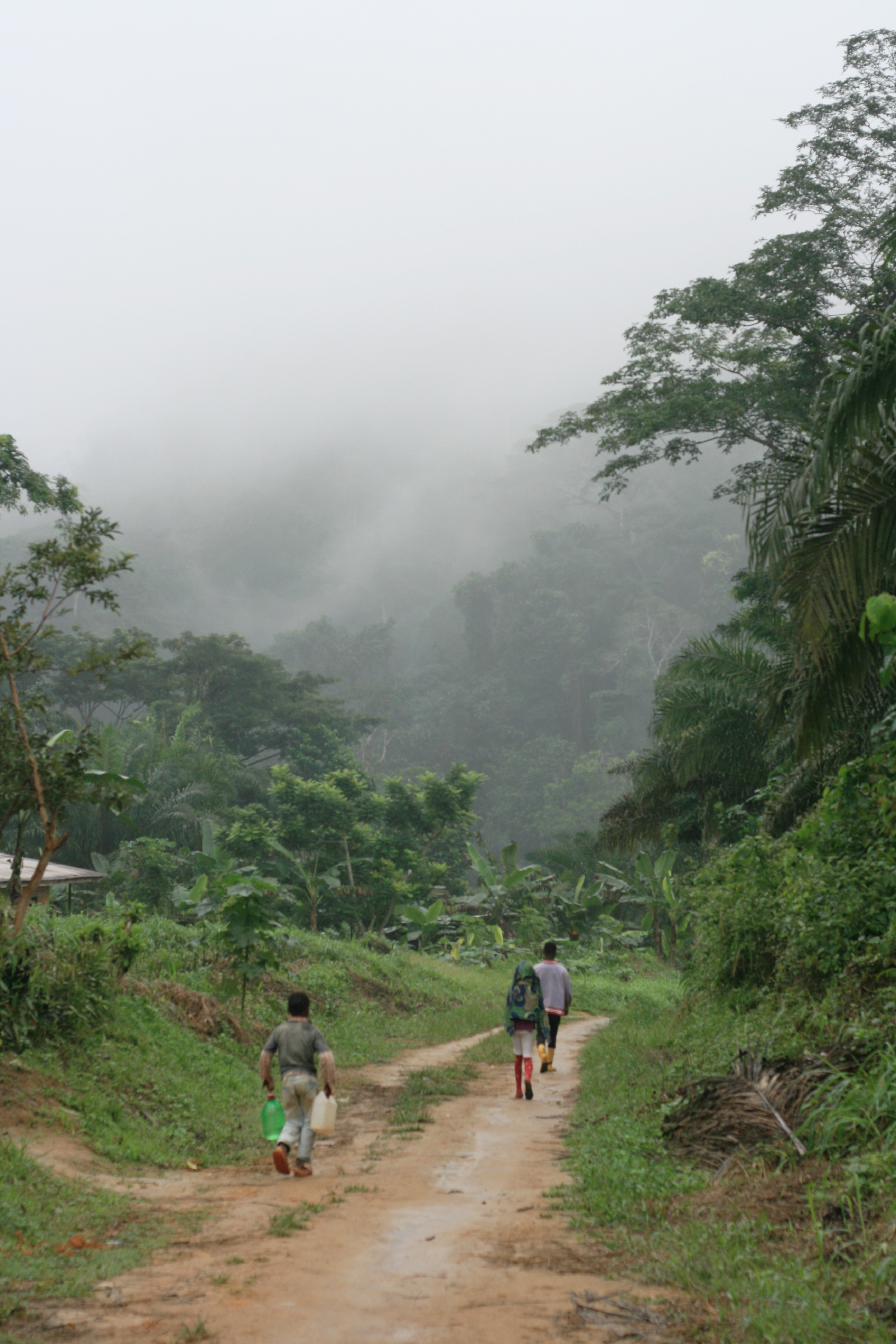 Tayap's road (Cameroon)